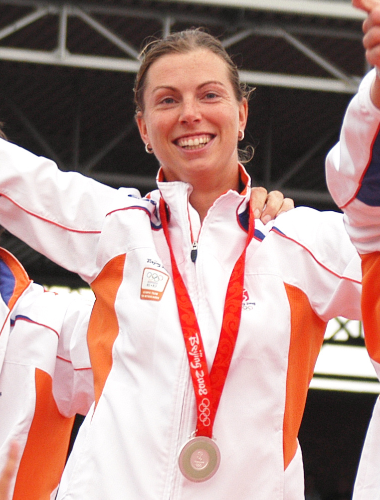 Helen Tanger at the Olympic welcome in the Olympic Stadium in Amsterdam, the Netherlands.